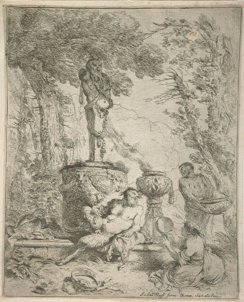 The Feast Before the Altar of Terminus, c. 1642. Print.Italian, 17th century.Etching. 23 x 18.4 cm (9 1/16 x 7 1/4 in.) B.16. Harvard Art Museums / Fogg Museum, Louise Haskell Daly Fund, S6.97.1 Department of Prints, Division of European and American Art